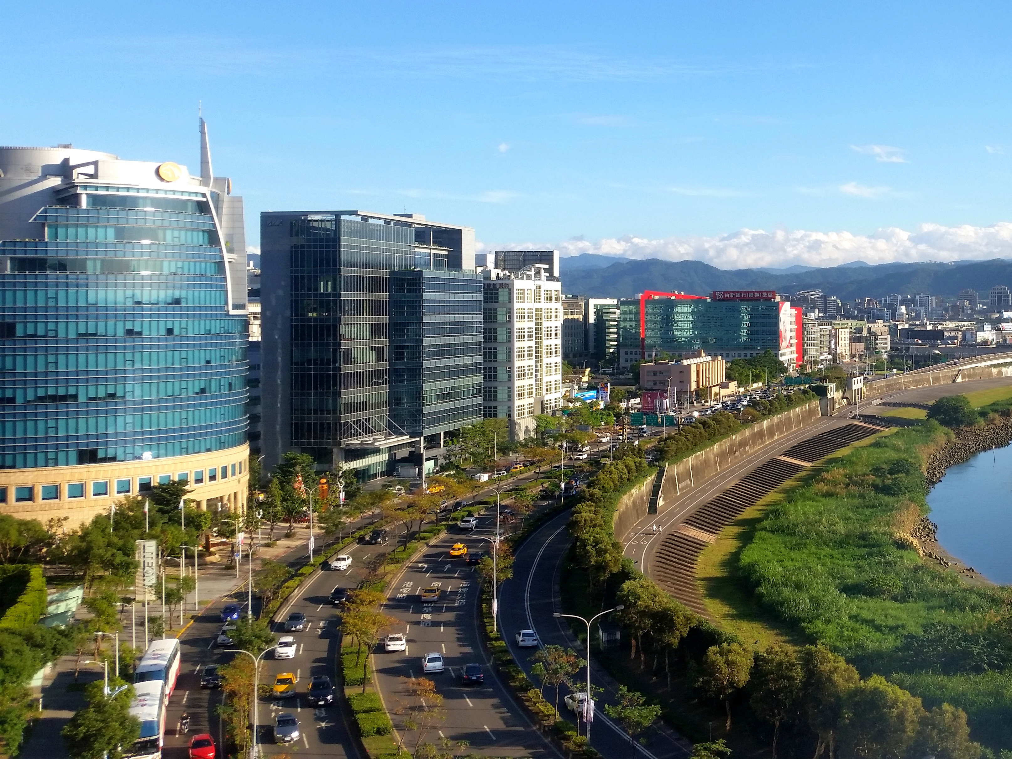 The landscape of the Taipei Neihu Technology Park during the winter solstice on 22 December 2015.